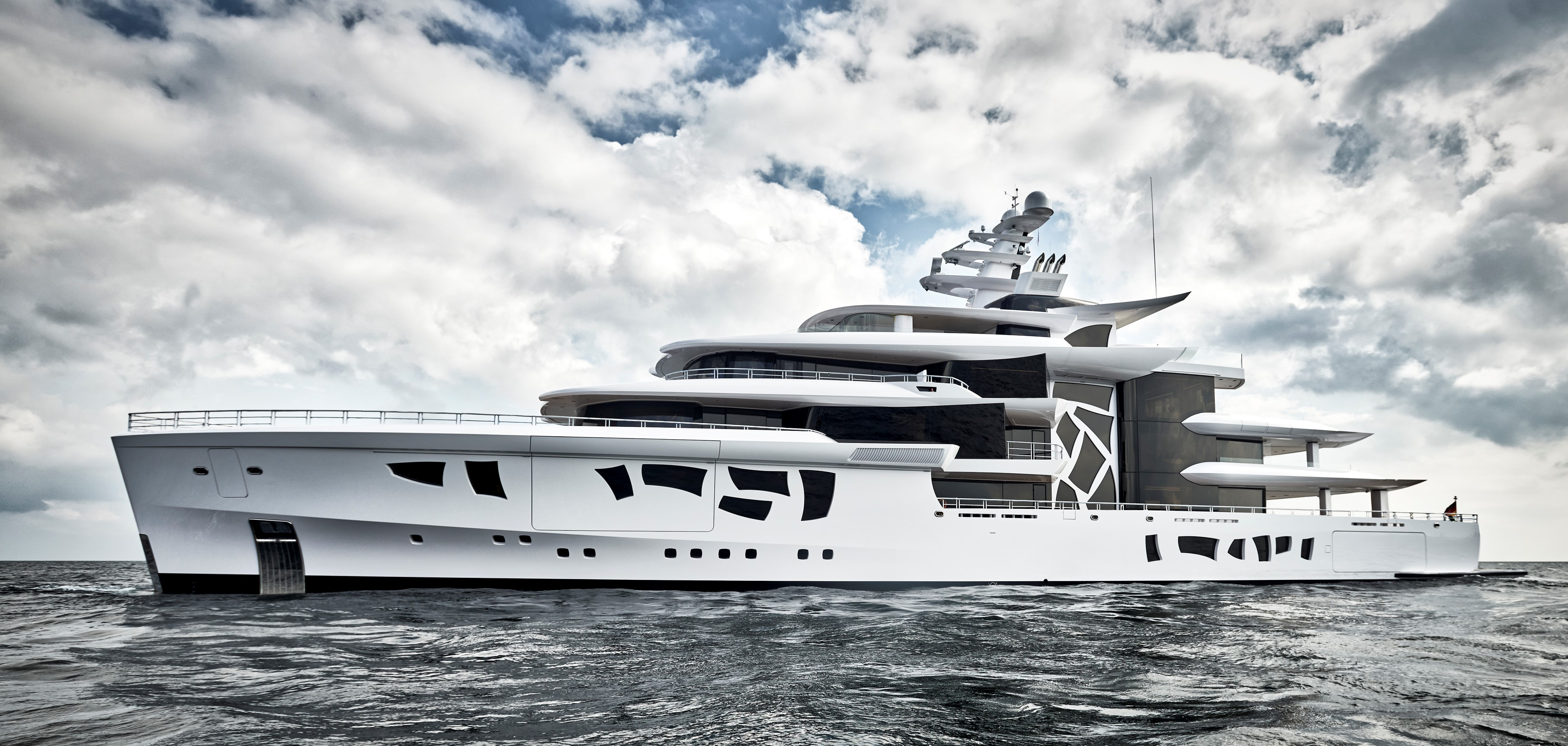 M/Y ARTEFACT